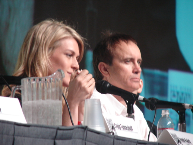 American character actor Jeffrey Combs (right), in a panel discussion at Comic-Con.